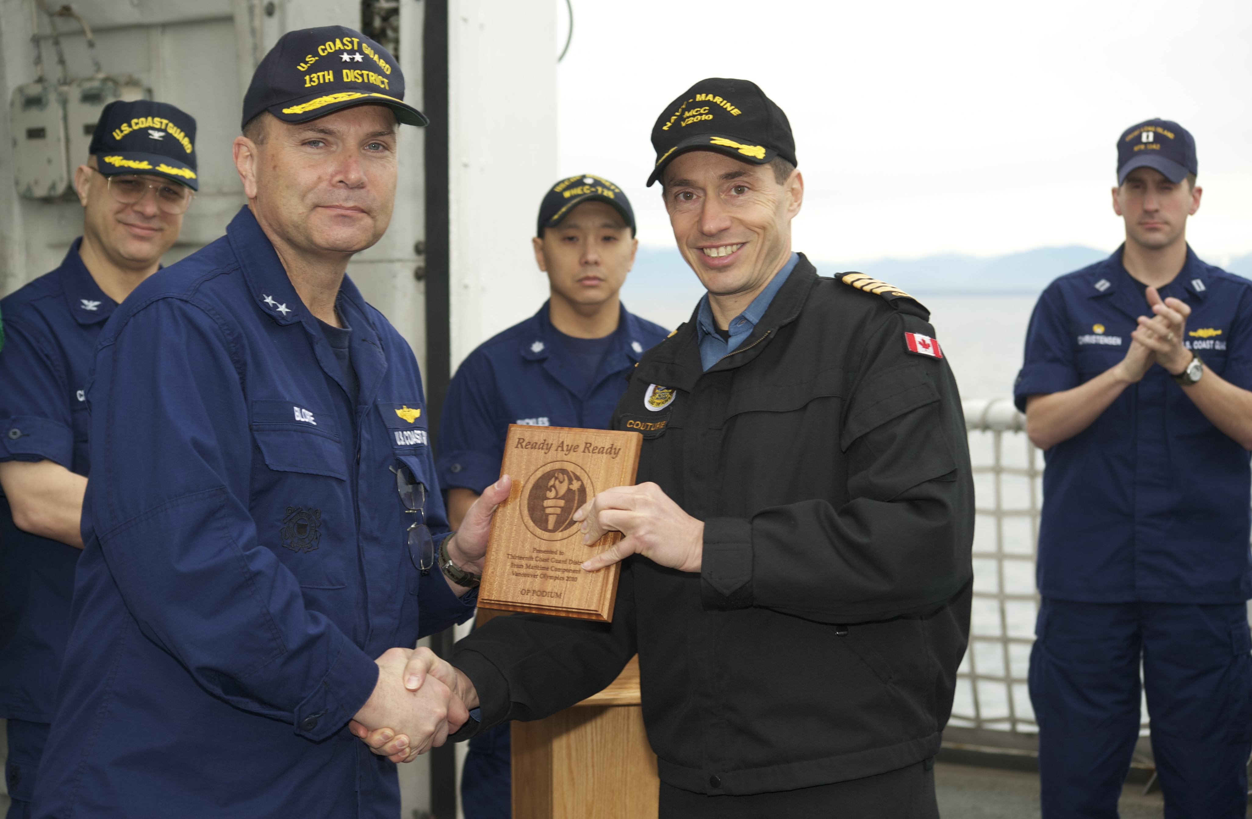 STRAIT OF GEORGIA - Rear Adm. Gary Blore, Thirteenth Coast Guard District Commander, receives a plaque from Capt. Gilles Couturier, Commander of the Maritime Operations Group, during a visit aboard Coast Guard Cutter Midgett here, March 1, 2010. Blore and Couturier awarded each other with plaques as a sign of appreciation for the work done during the Vancouver 2010 Olympics. The Coast Guard worked with the U.S. Navy, Canadian Navy and the Royal Canadian Mounted Police as part of a cross-boarder information sharing and law enforcement operation titled Operation PODIUM. U.S. Coast Guard photo by Petty Officer 3rd class David R. Marin.